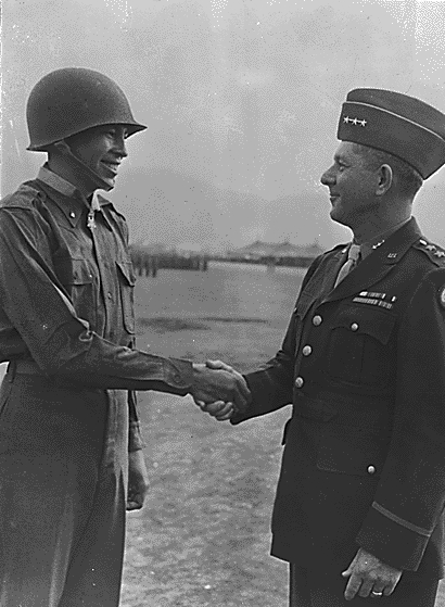 Lt. Ernest Childers, a Creek, being congratulated by Gen. Jacob L. Devers after receiving the Congressional Medal of Honor in Italy for wiping out two machine gun nests.